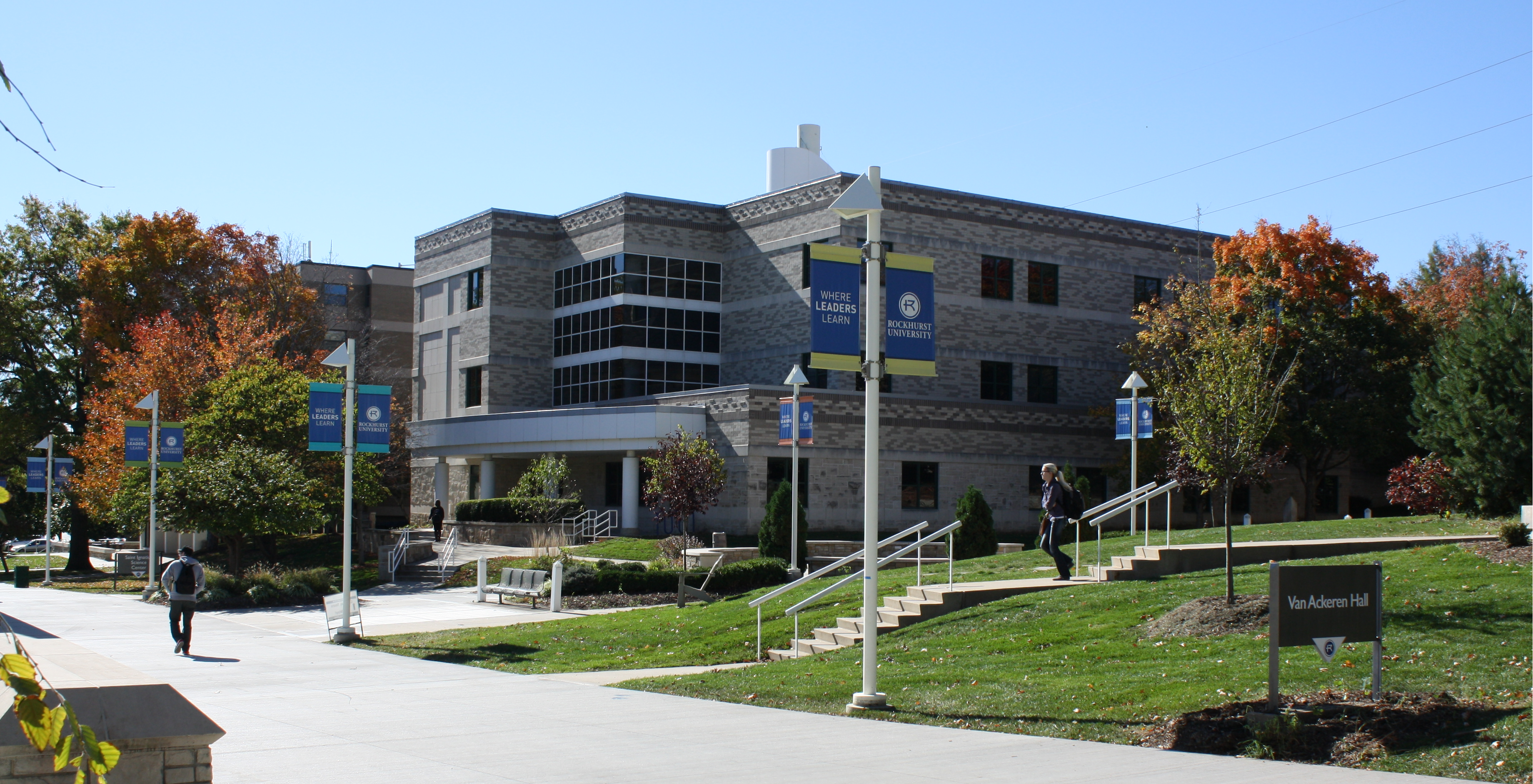 Ignatius Science Bldg. at Rockhurst University, Kansas City, MO, USA